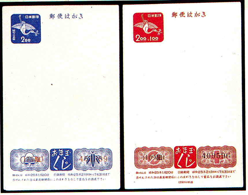 Japanese New_year_post_card in 1949